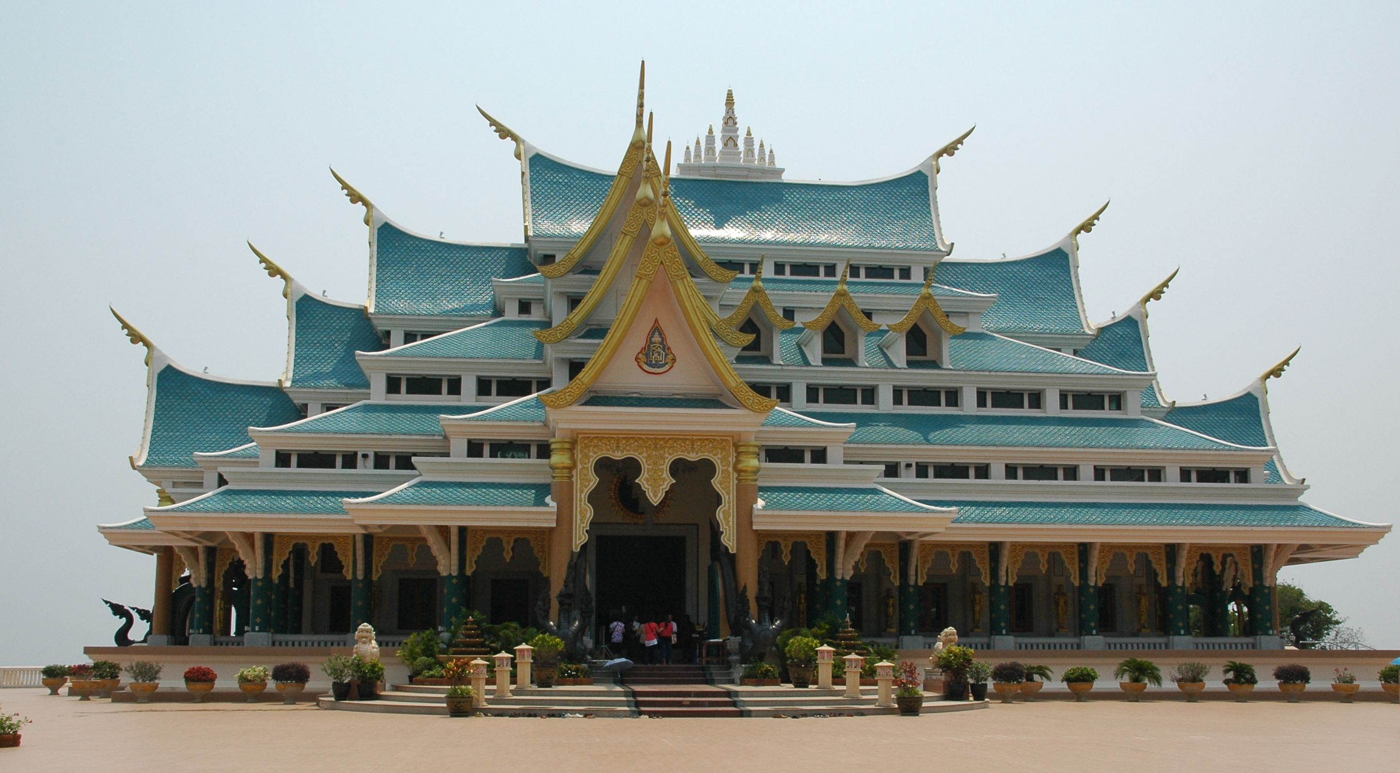 Wihan (big temple hall) of Wat Pa Phu Kon, Province Udon Thani, Thailand.